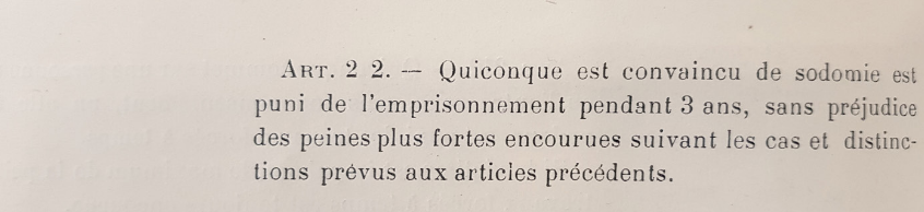 Article 212 of the 1911 preliminary draft of the tunisian penal code